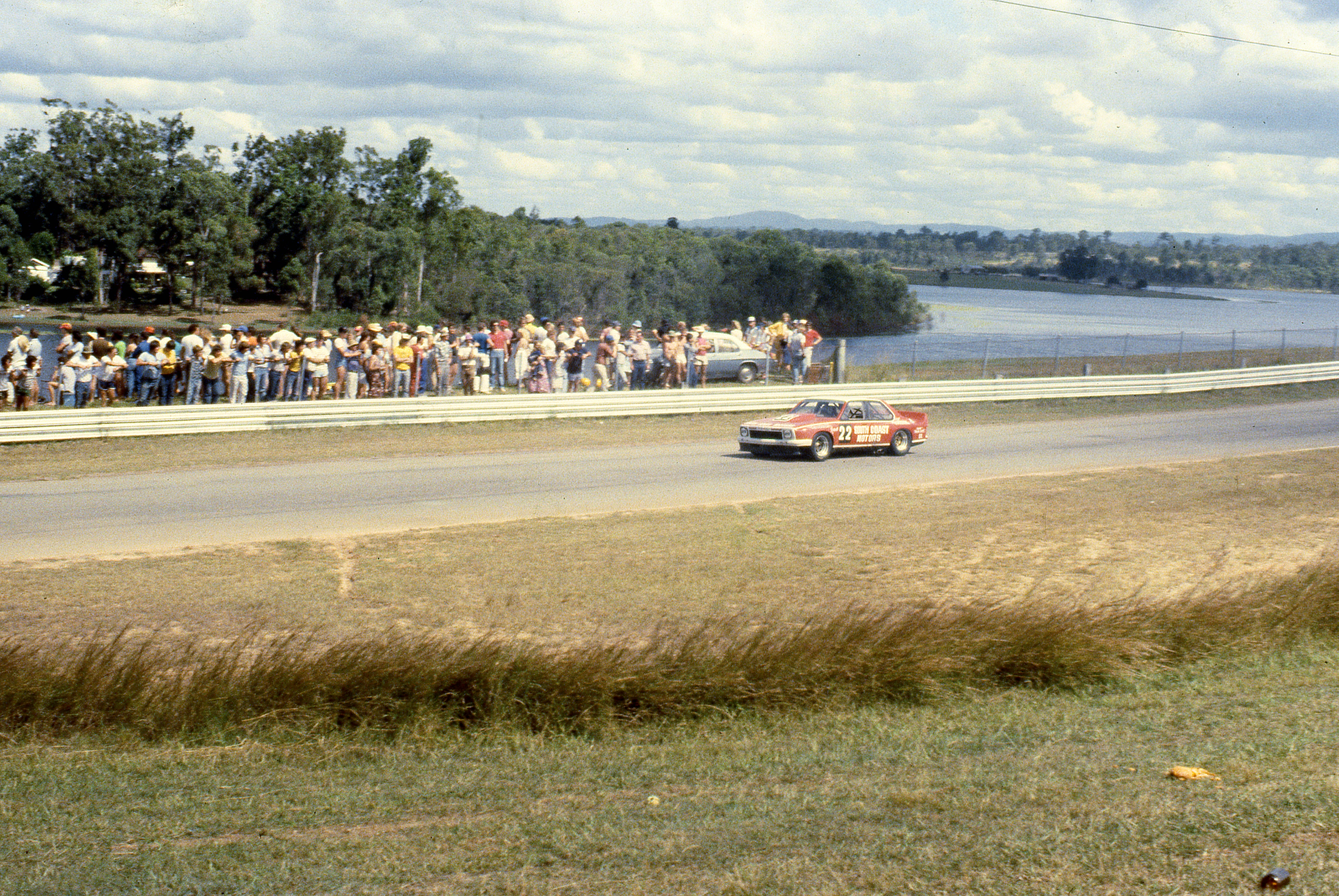 Photo of racetrack, race car, lake and spectators at Lakeside International Raceway near Lake Kurwongbah in South East Queensland, Australia